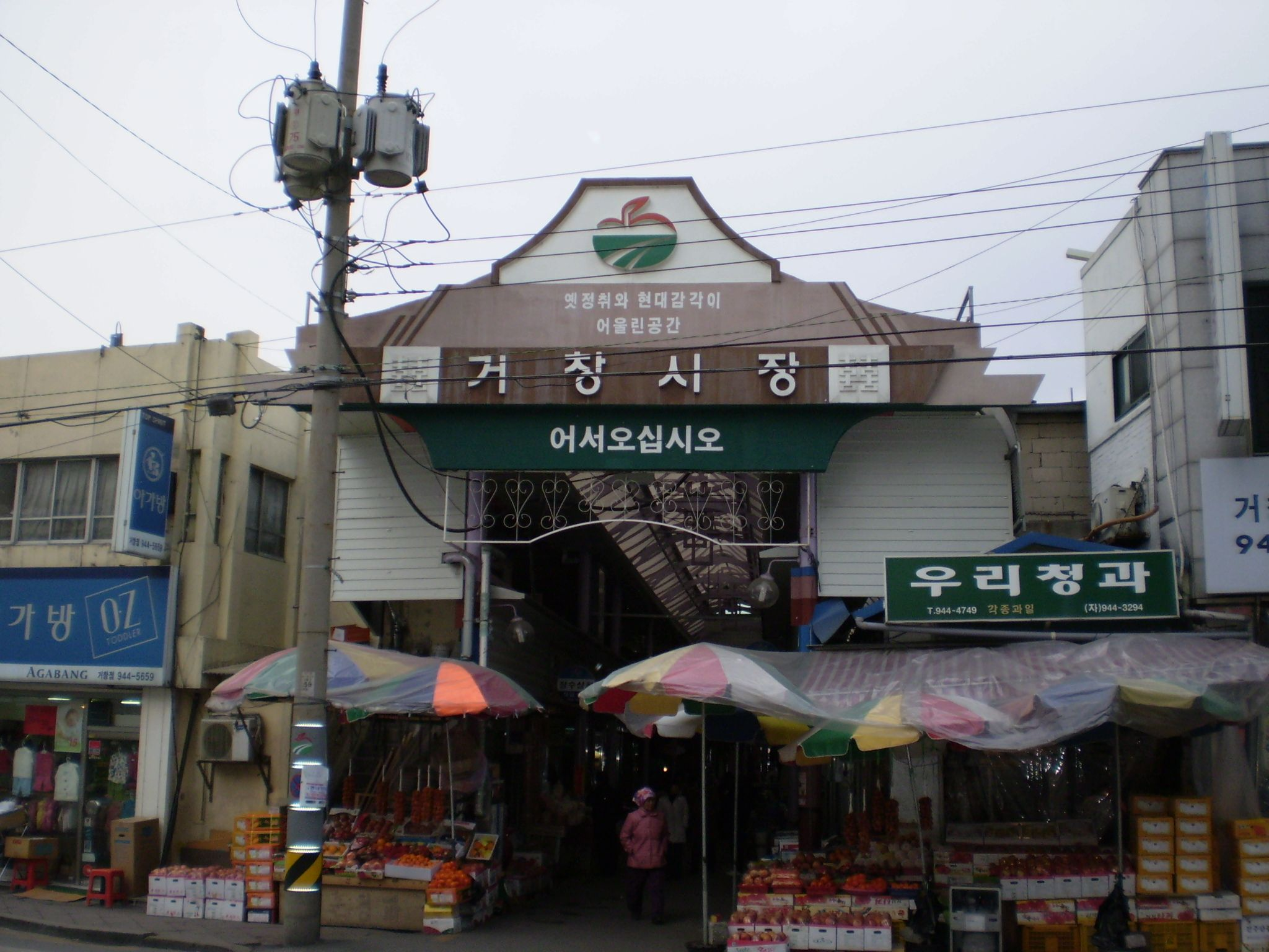 Entrance to the traditional market in Geochang, Gyeongsangnam-do, South Korea.